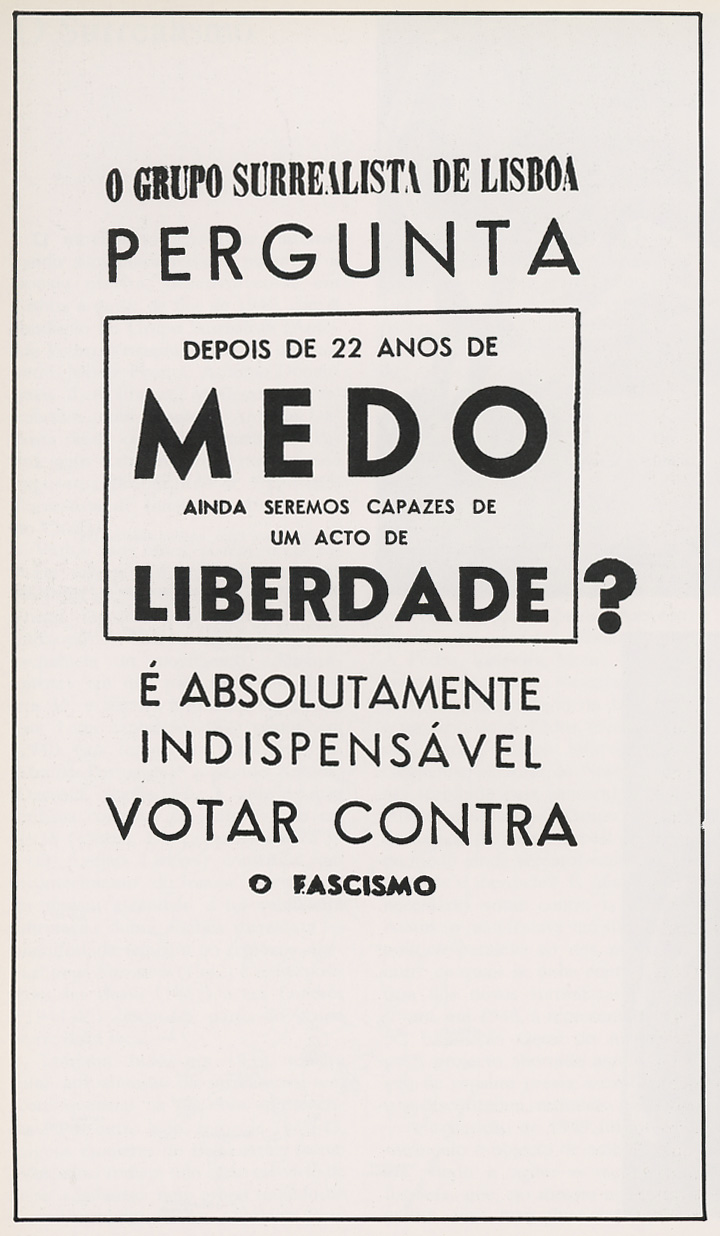 Exhibition catalogue: Grupo Surrealista de Lisboa, 1949 (this catalogue cover was supposed to be part of the Norton de Matos political campaign; forbidden by censorship, this cover had to be replaced)